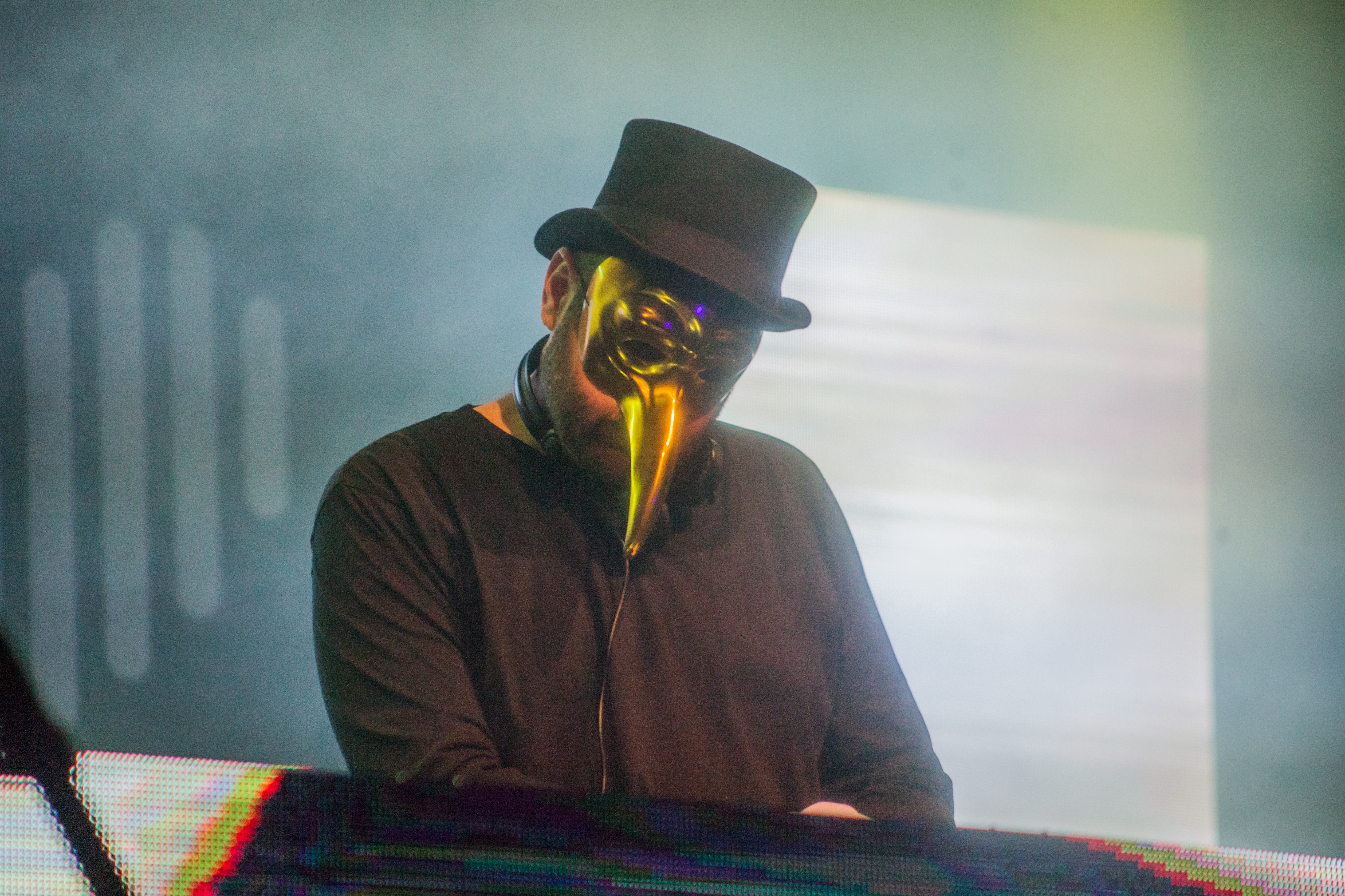 Claptone performing at electronic music festival Beats for Love (Ostrava, Czechia) on 5 July 2019